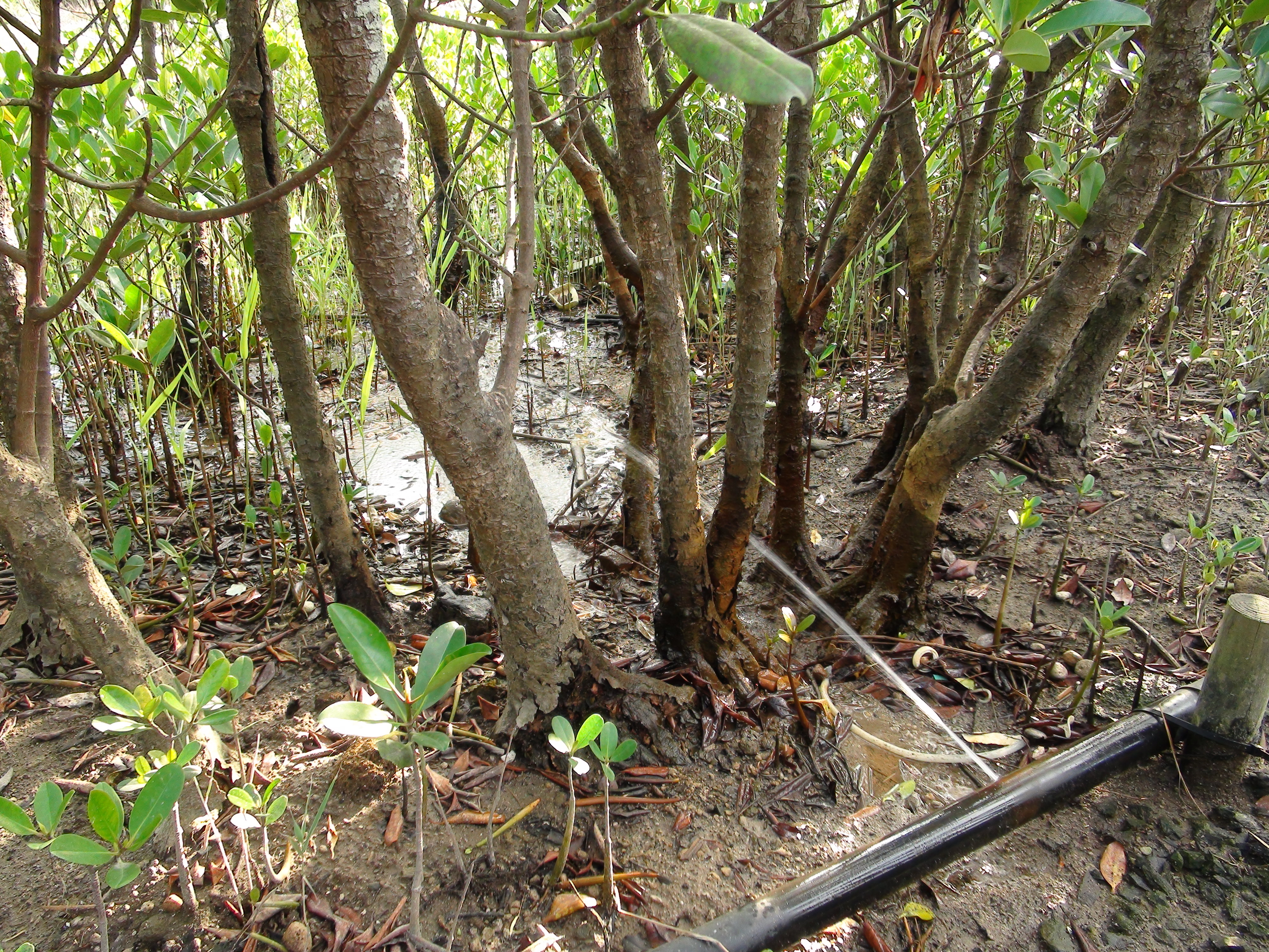 Kiire Kandelia obovata plant community